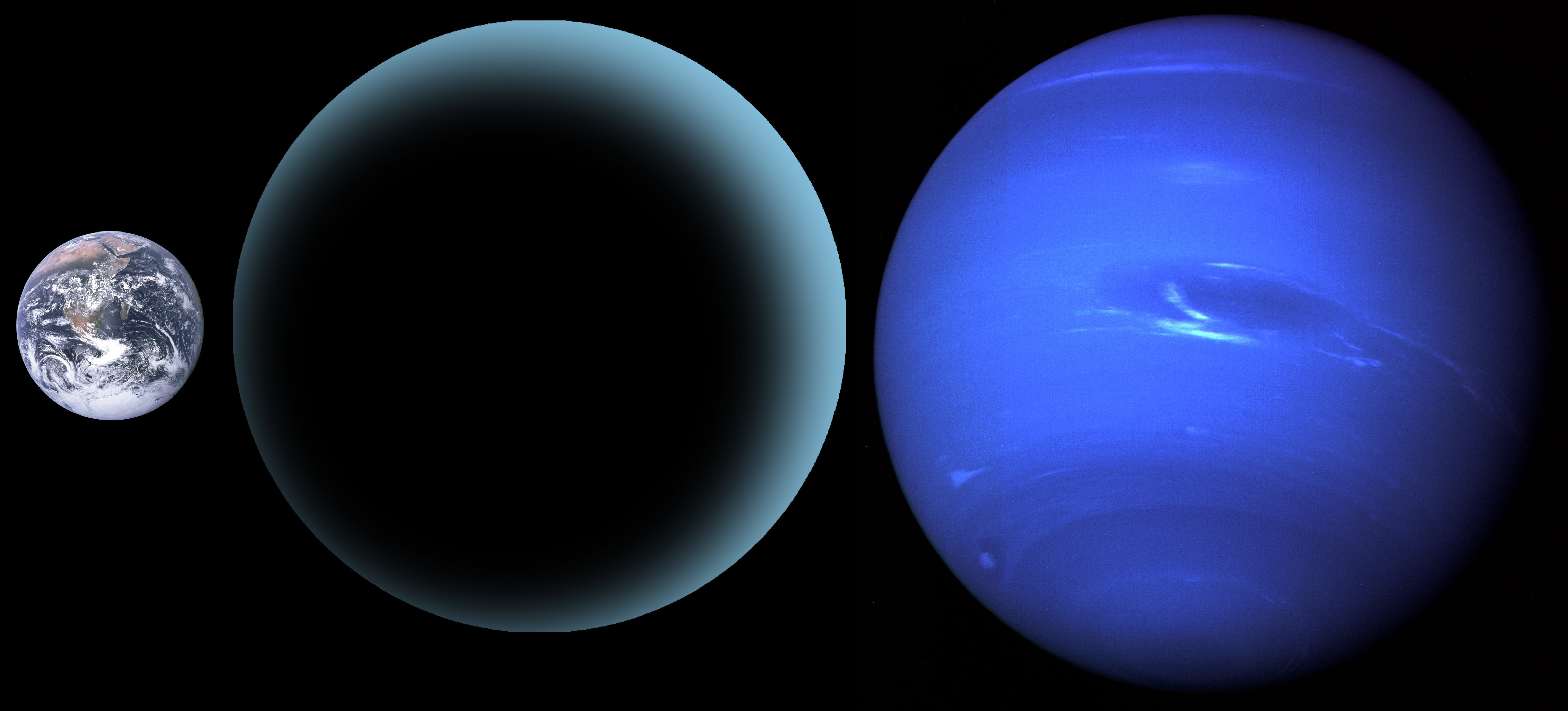 This is a comparison of Planet Nine to Earth (left) and Neptune (right). Uses File:The Earth seen from Apollo 17.jpg and File:Neptune Full.jpg